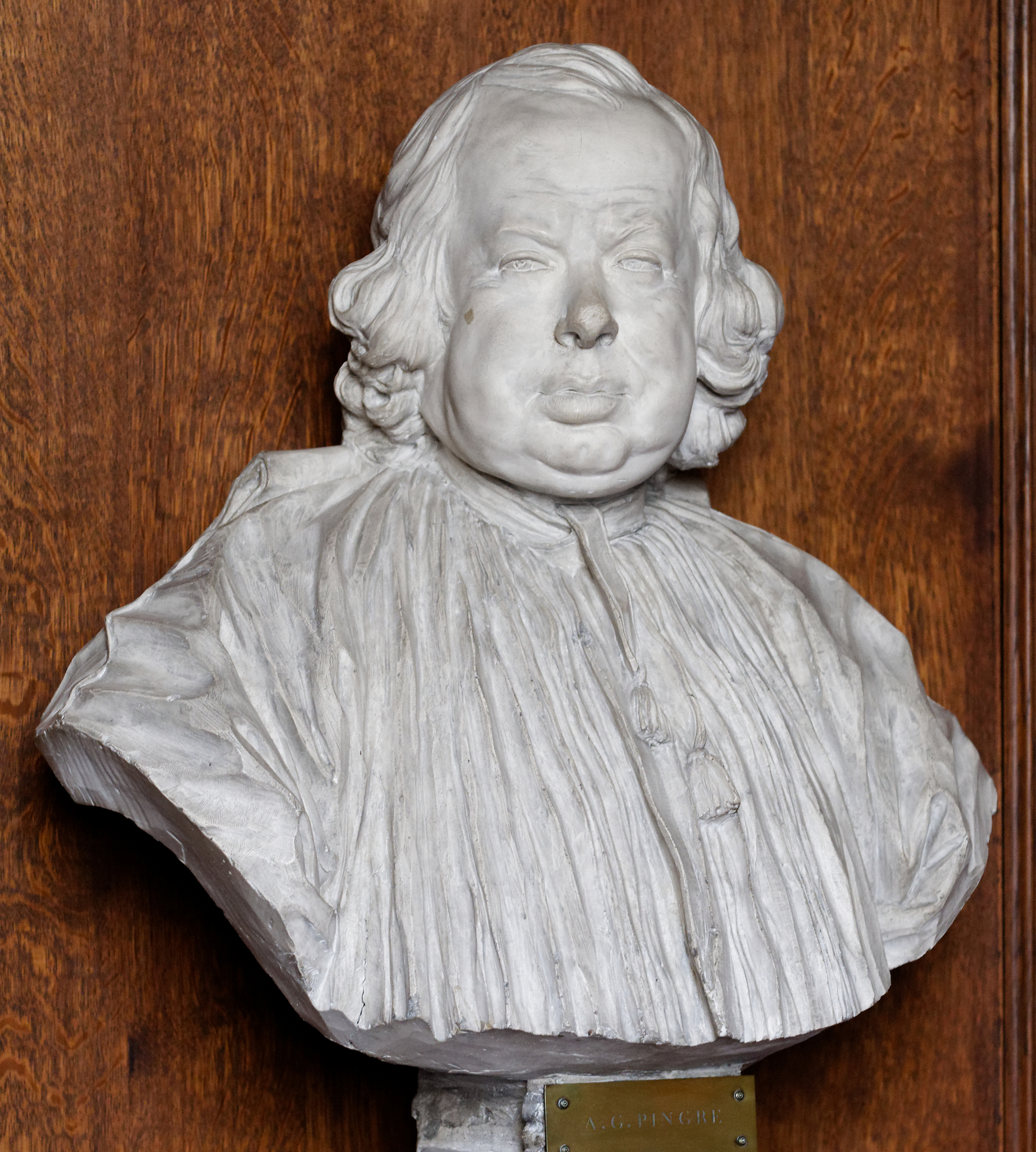 Bust of Alexandre Guy Pingré.